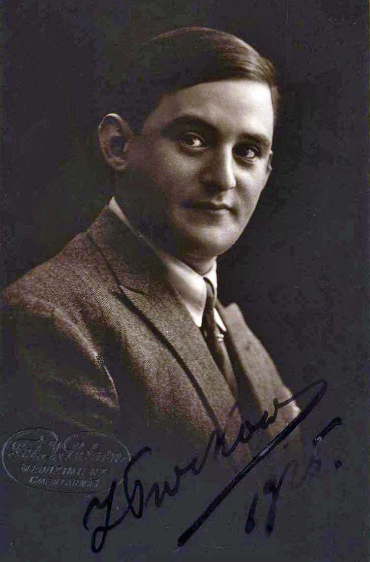 Picture of Zygmunt Turkow